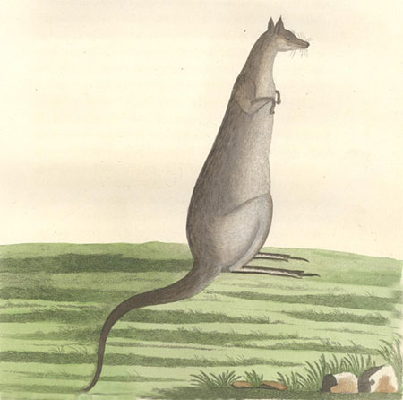 An illustration from The Voyage of Governor Phillip to Botany Bay depicting a kangaroo Original caption: The Kanguroo